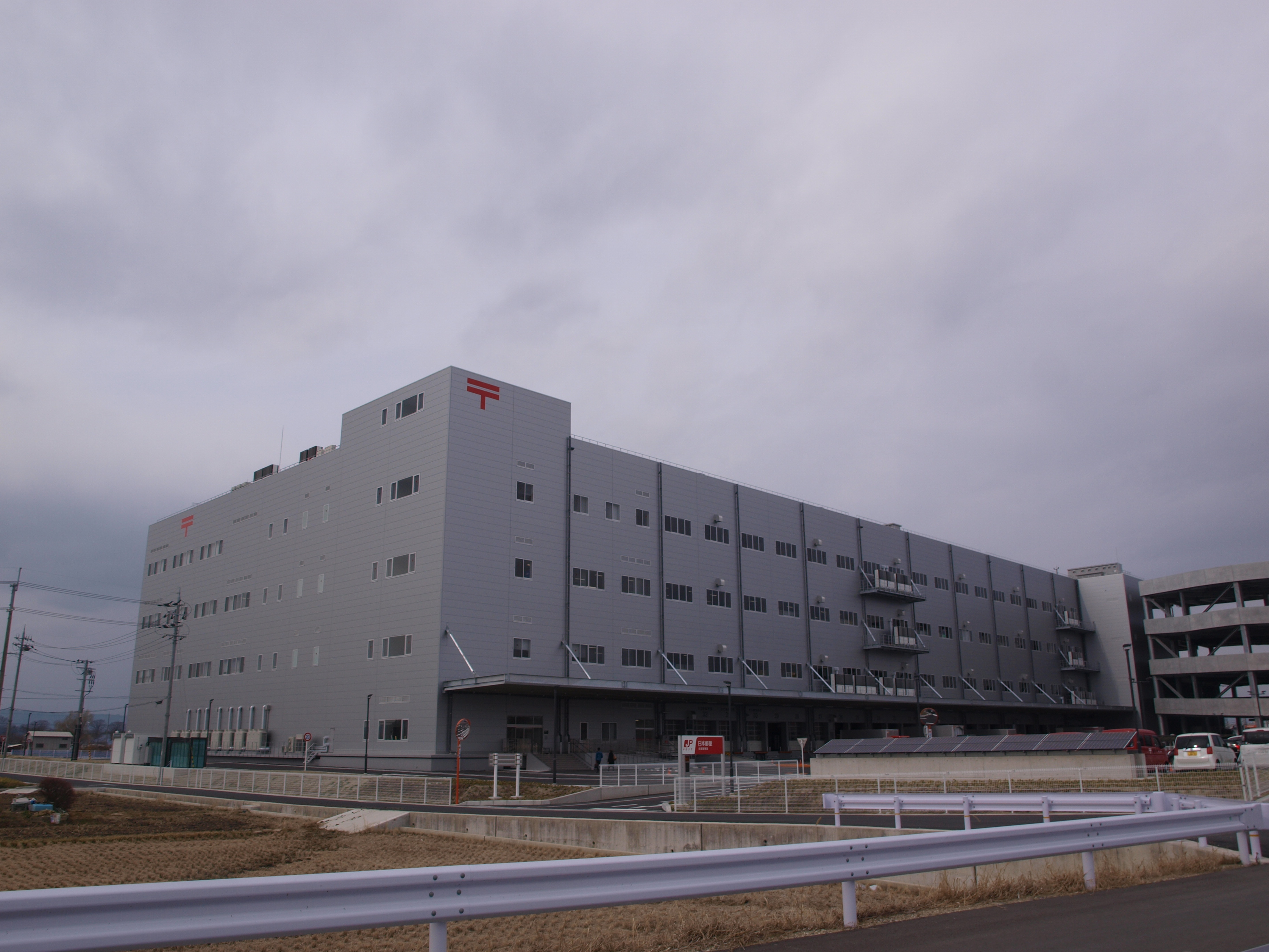 Facility of Kyoto postoffice, 21th,FEB,2018.